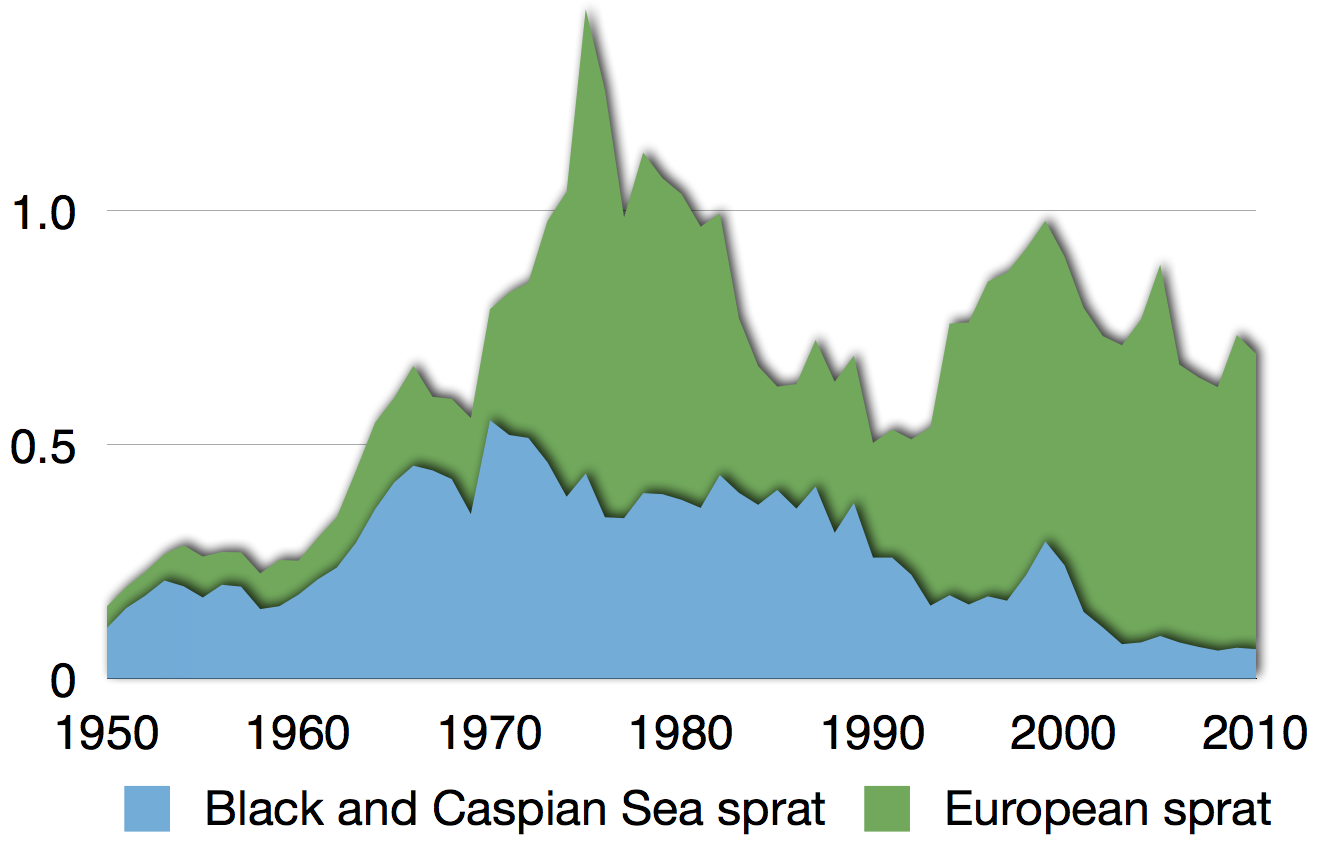 Global capture of all menhaden species in millions of tonnes, 1950–2010, as reported by the FAO. Based on data sourced from the relevant FAO Species Fact Sheets